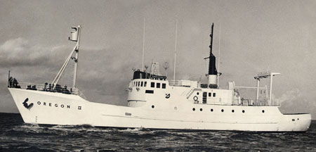 The United States Fish and Wildlife Service Bureau of Commercial Fisheries fisheries research ship BCF Oregon II. She later became the National Oceanic and Atmospheric Administration fisheries research ship NOAAS Oregon II (R 332)